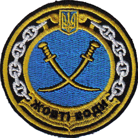 U310 Zhovti Vody a Natya class minesweeper of the Ukrainian Navy.